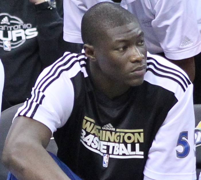 Hamady N'Diaye, Washington Wizards basketball player.